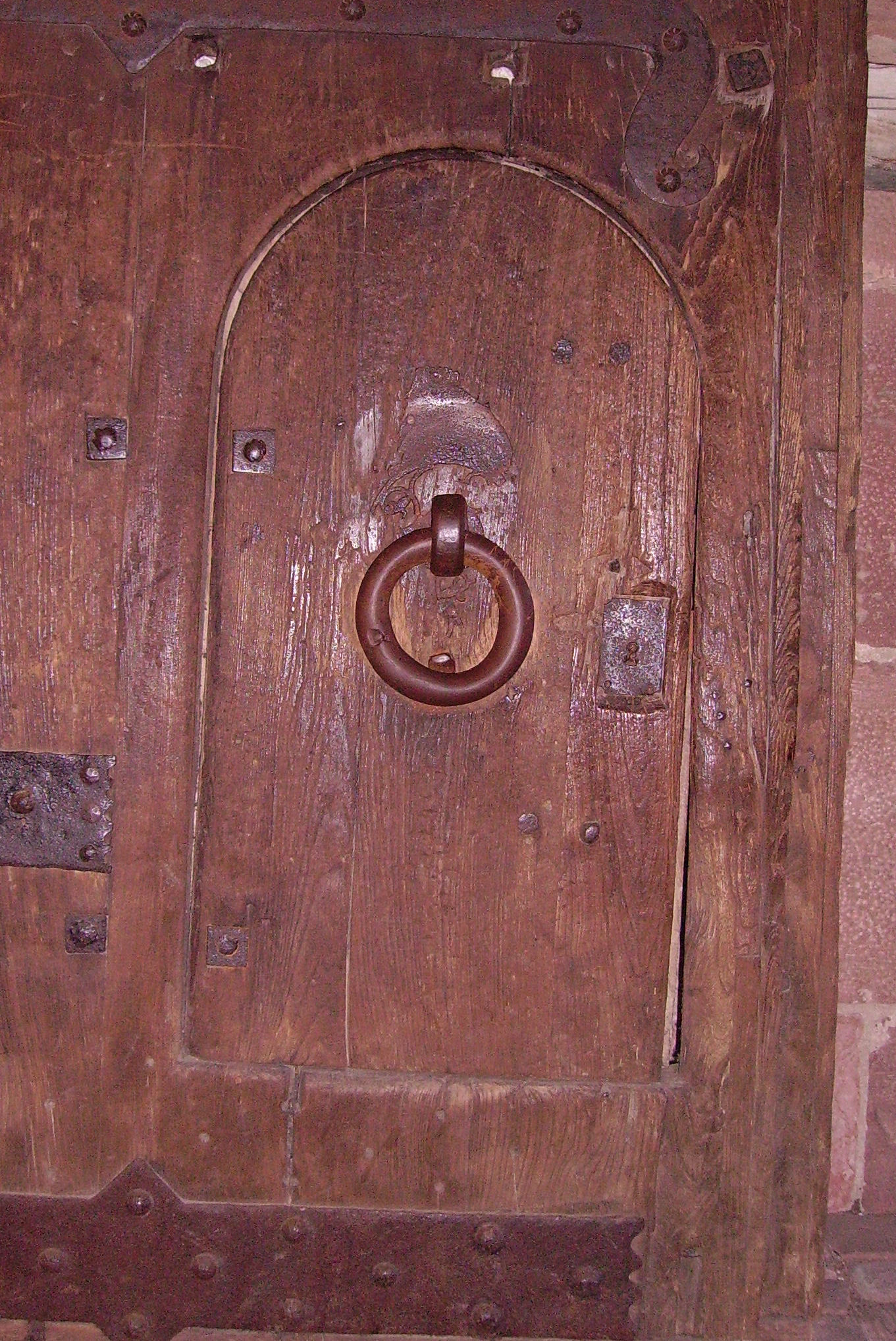 at the gate of Heidelberg castle (Heidelberger Schloss)